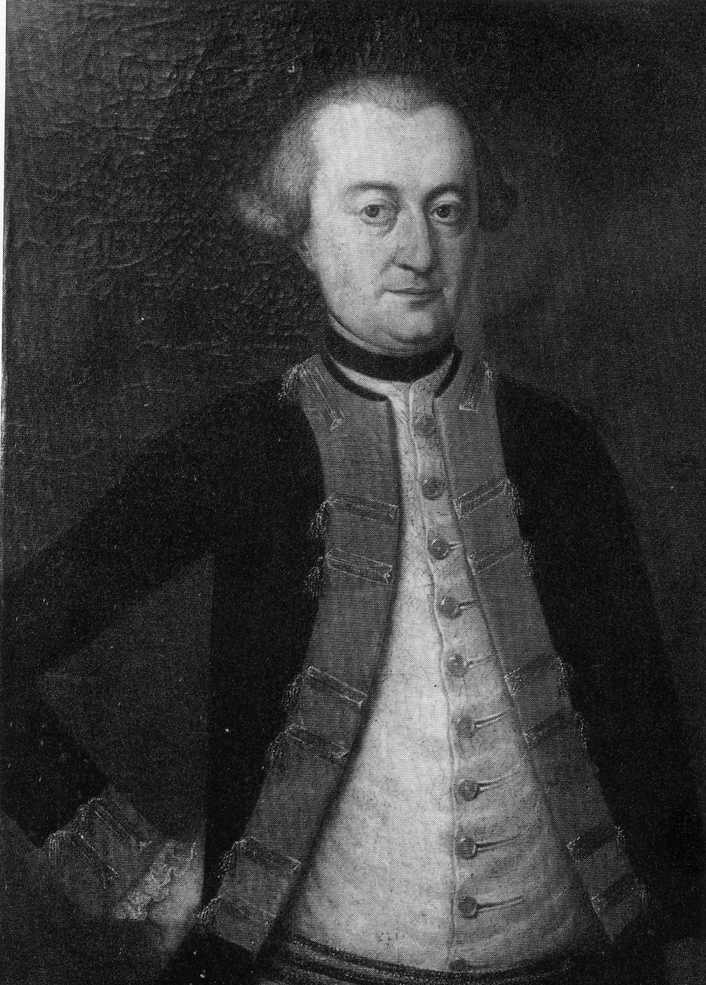 Former Heilbronn mayor Gottlob Moriz Christian von Wacks (ca. 1780). Oil painting, Historic museum Heilbronn